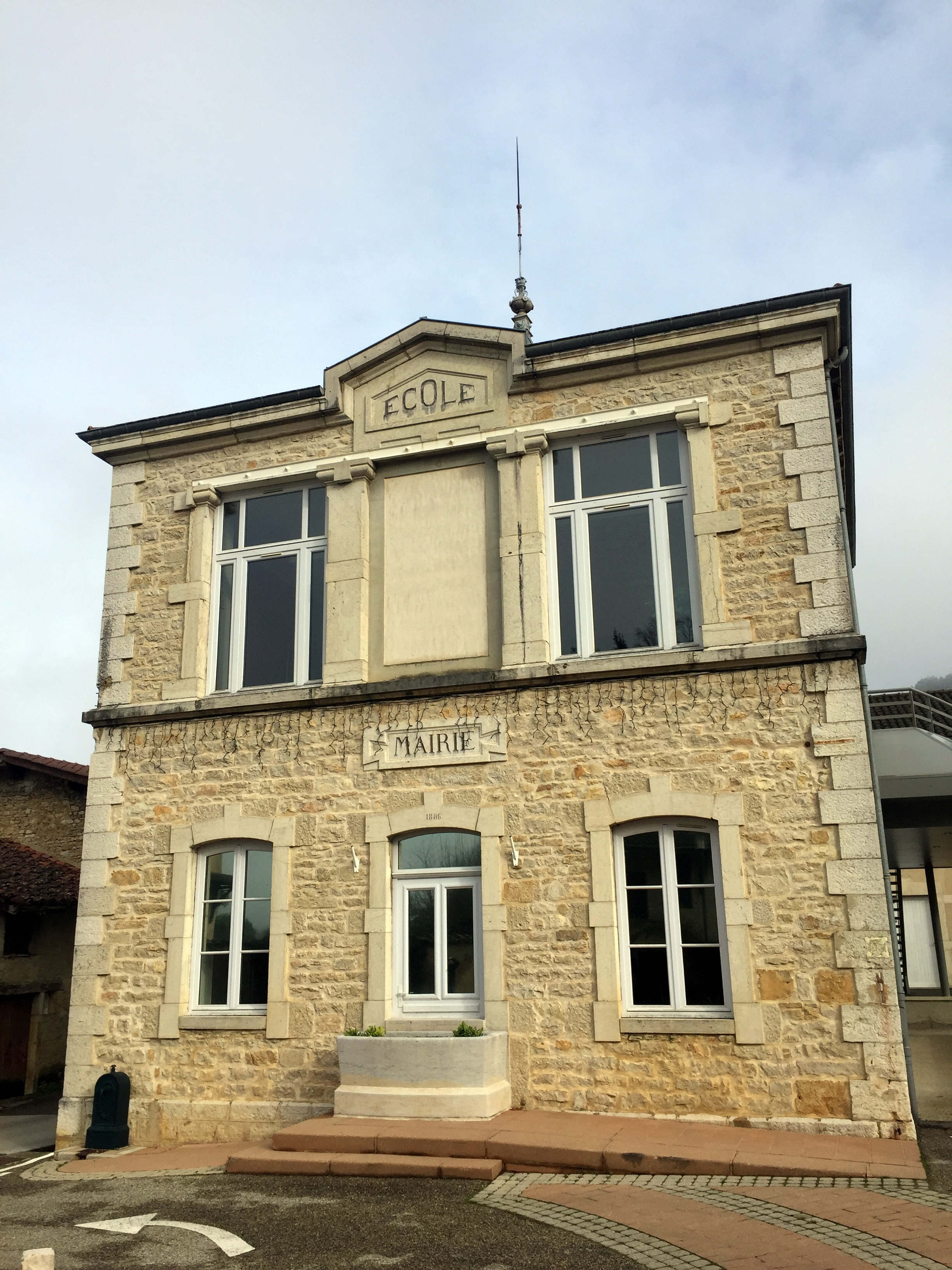 This photograph was taken with an iPhone 6